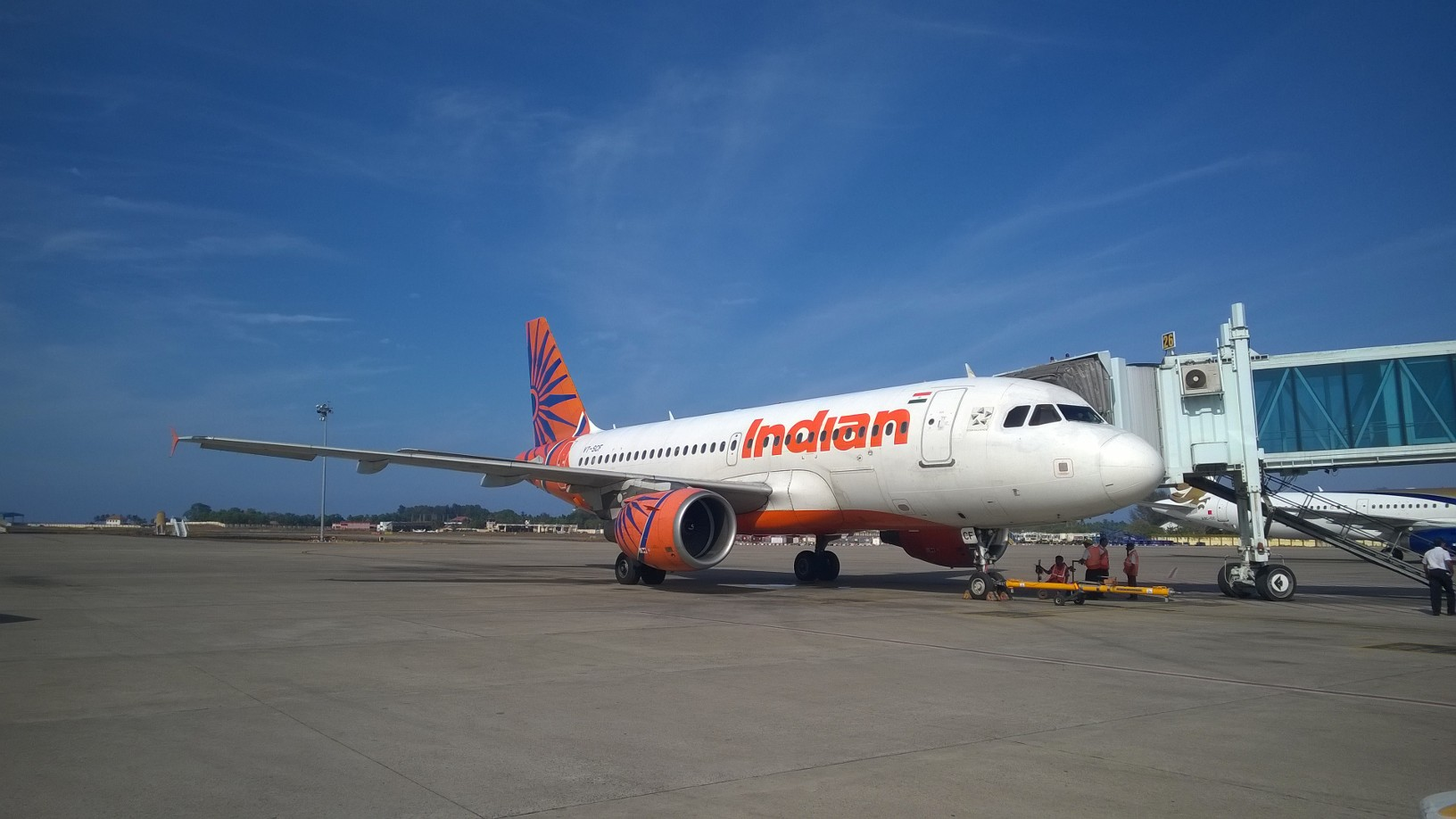 Air India Airbus A319 with INDIAN Livery parked at Trivandrum International Airport